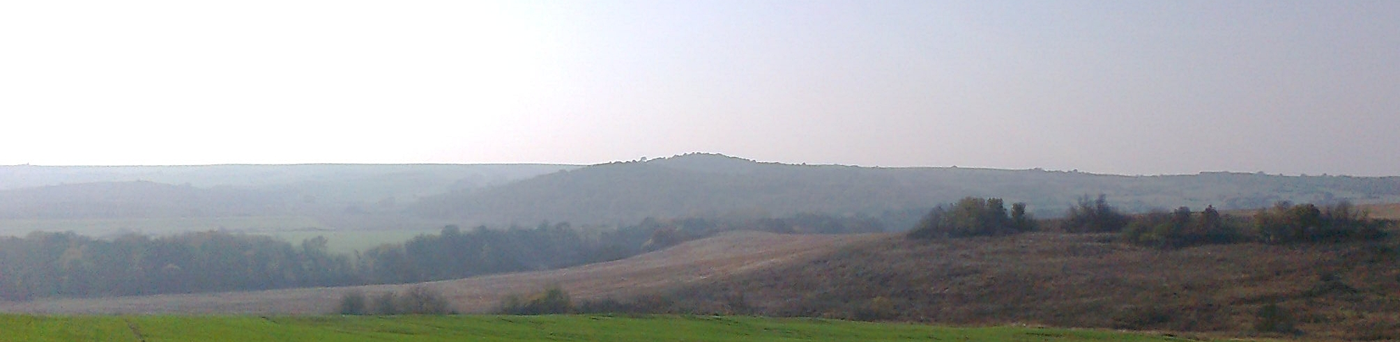 The valley of Araplìyska River after the village of Chernozèm.